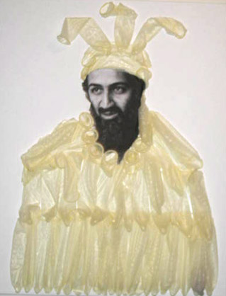 Condom Bin Laden